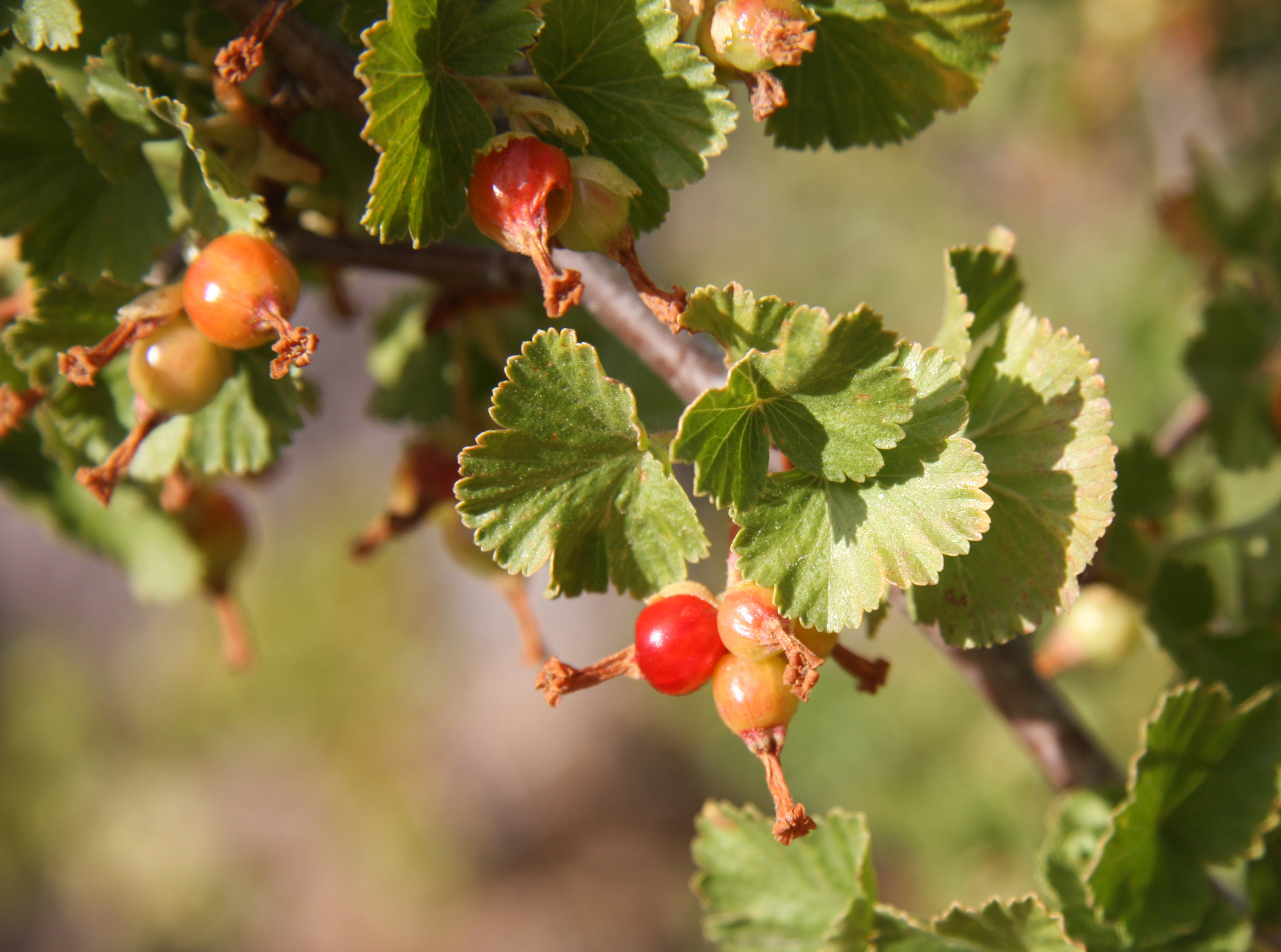 Wax currant (Ribes cereum), closeup of berries, showing the characteristic dried flower remnant. At about 2,821 m (9,255 ft) on ridge above Minaret Summit west of Mammoth Lakes, Mono County, California.